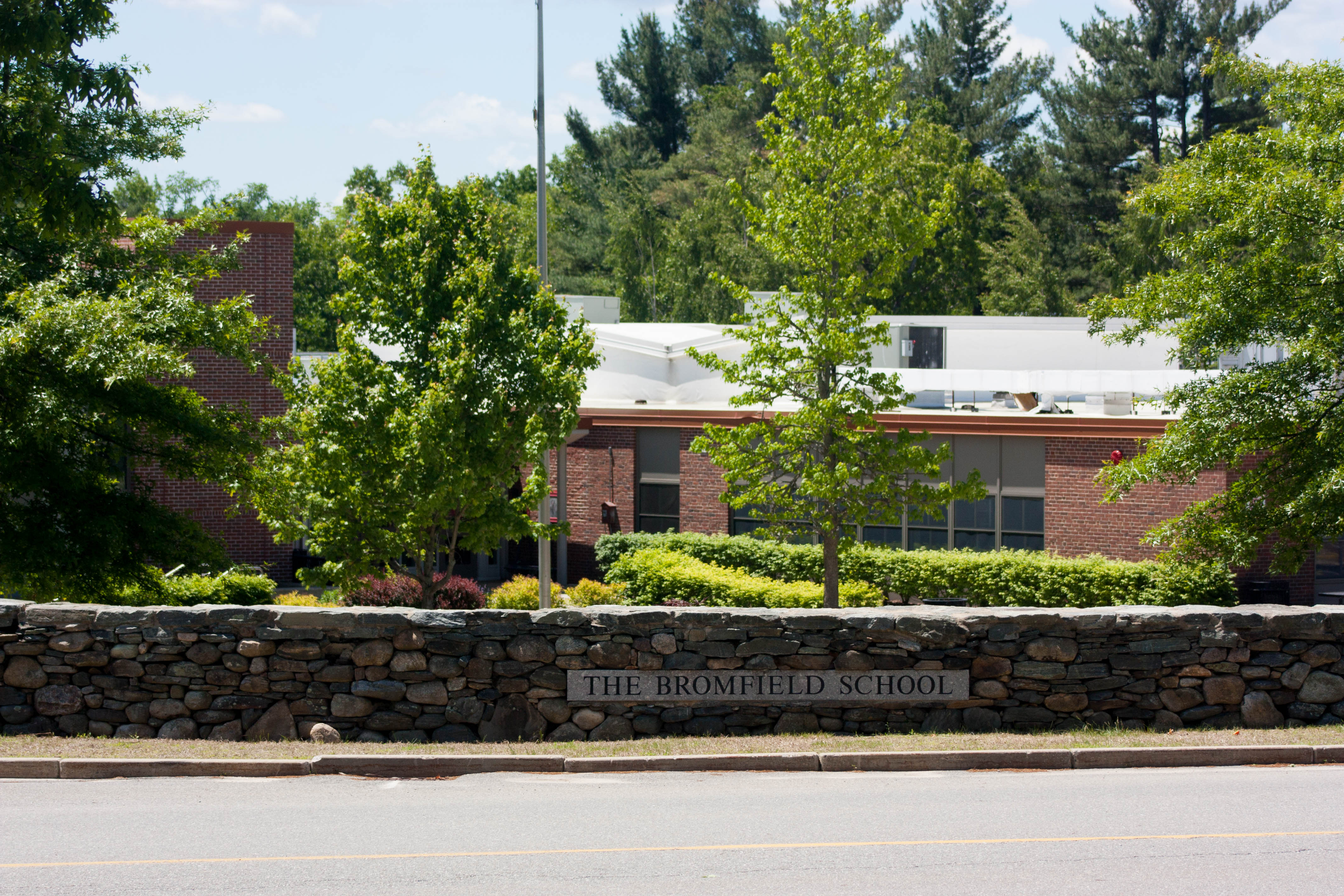 Entrance to the Bromfield School in Harvard, MA USA